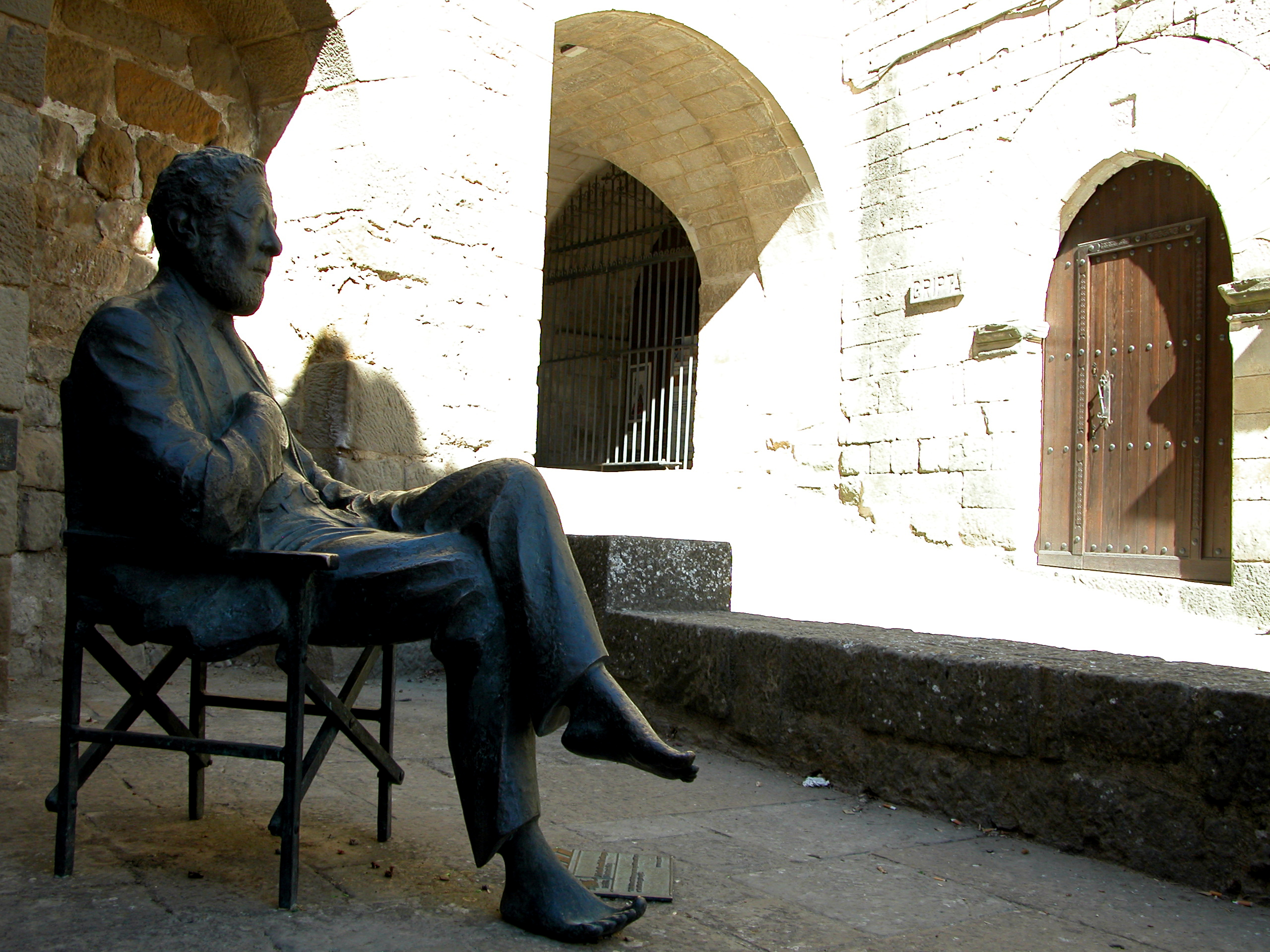 Statue of Luis Garcia Berlanga in Sos del Rey Catolico